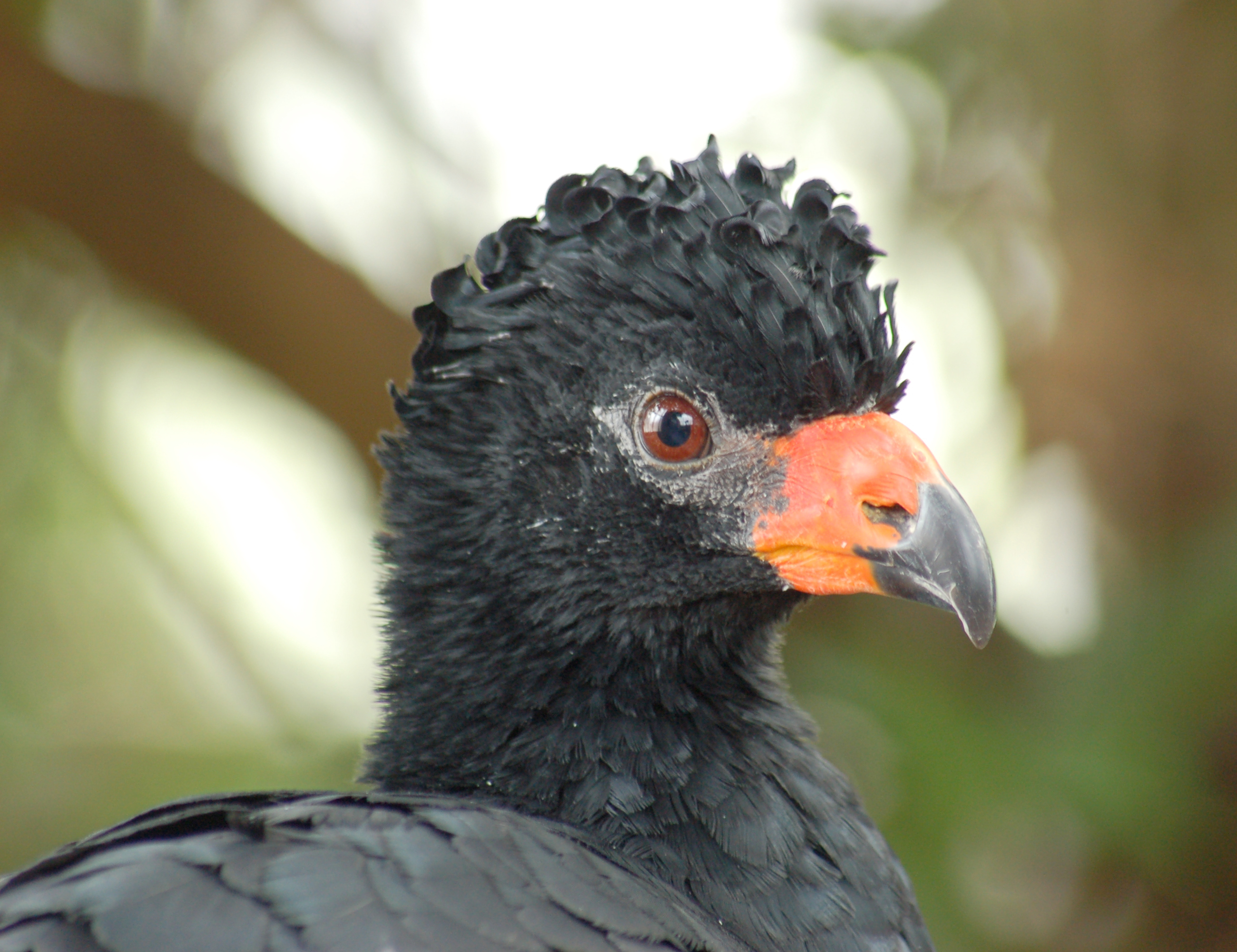 A photograph of Wattled Curassowen (Crax globulosa en ). Photo taken at the National Aviary.